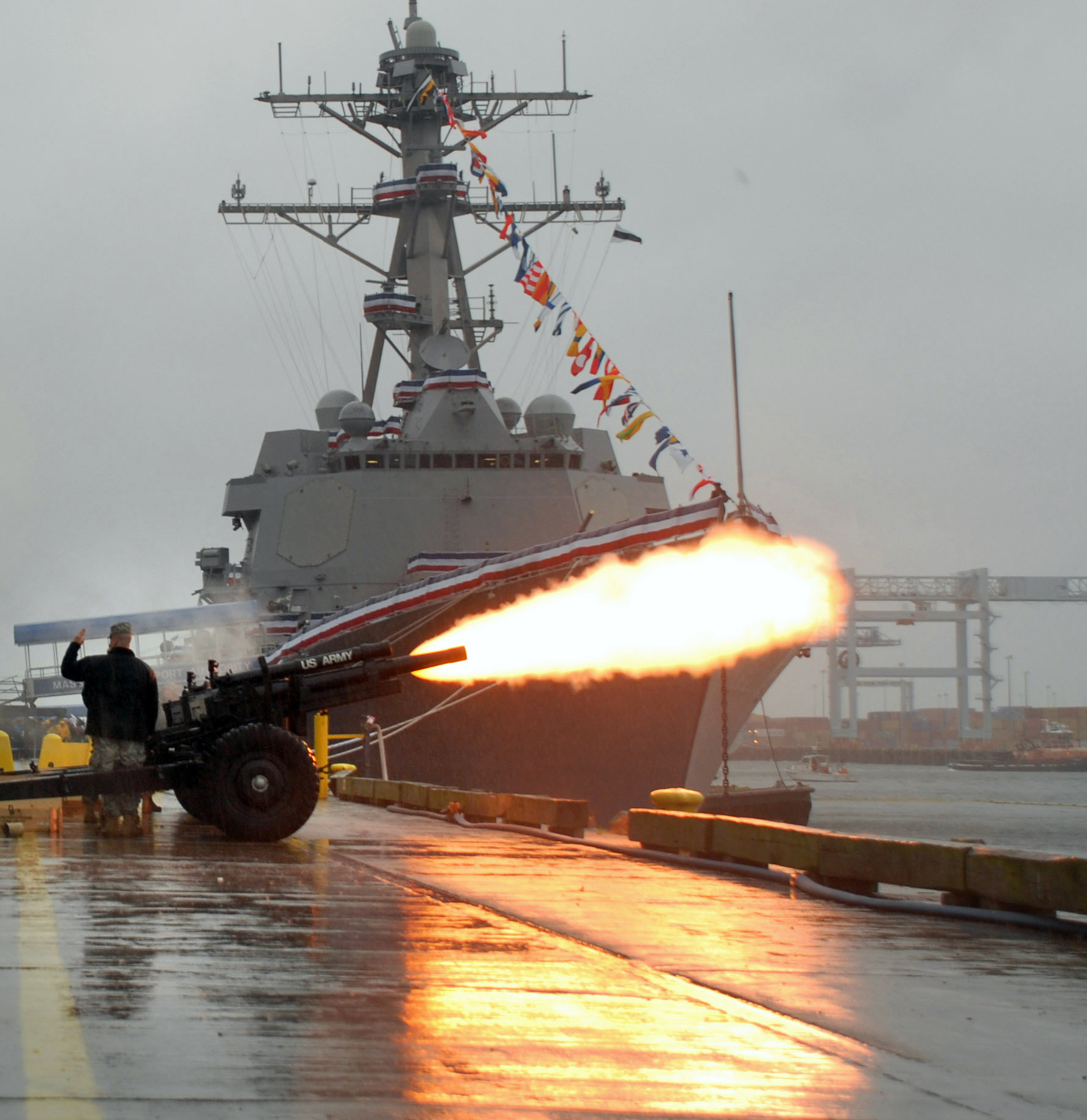 U.S. Army soldiers of the 101st Field Artillery Battalion of the Massachusetts Army National Guard provide the gun salute for the commissioning of USS Sampson in Boston, Mass., Nov. 3, 2007. (U.S. Navy photo by Cmdr. Jane Campbell)